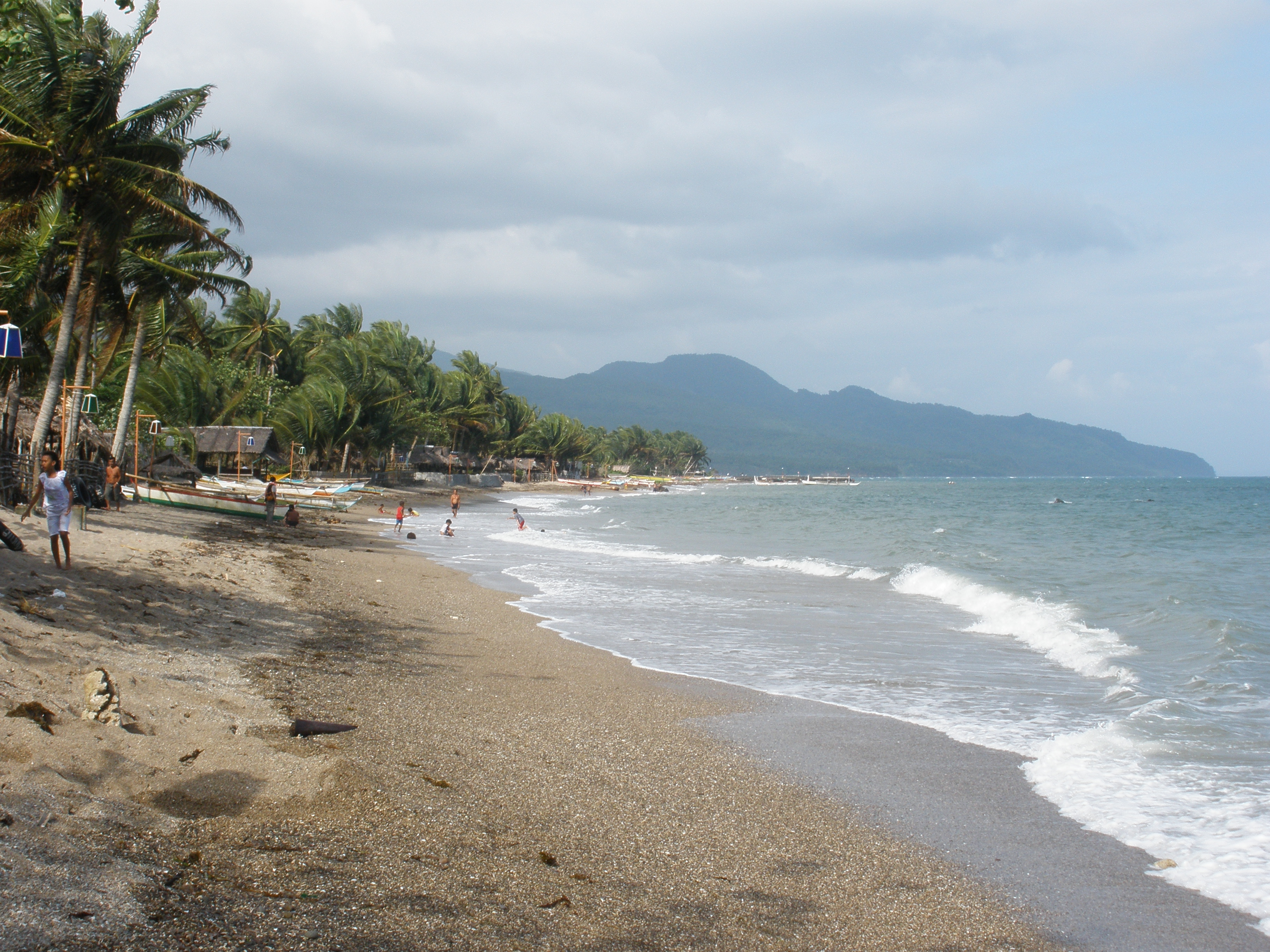 Bacon Beach,Sorsogon City facing North. The mountains in the background divide Sorsogon and Albay provinces.